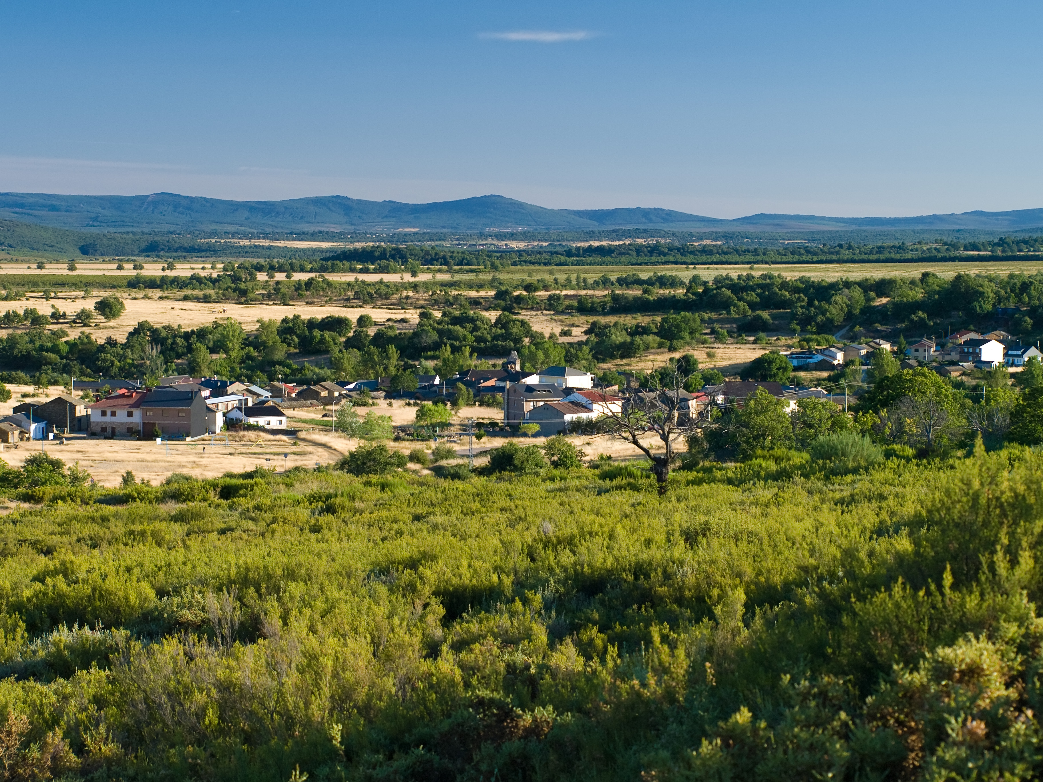 Sight of the spanish town of Justel, in the province of Zamora